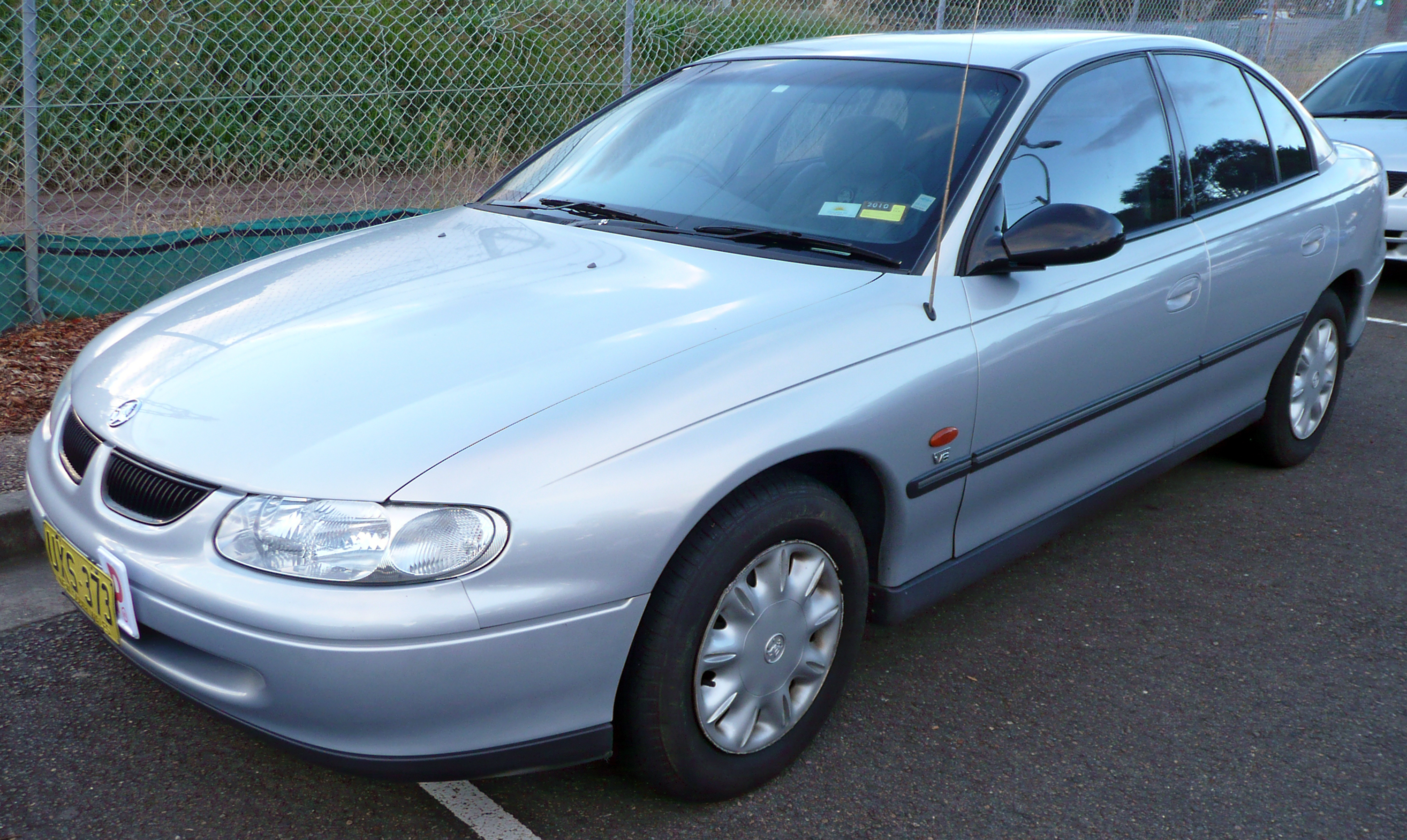 1998 Holden Commodore (VT) Executive sedan. Photographed in Sutherland, New South Wales, Australia.